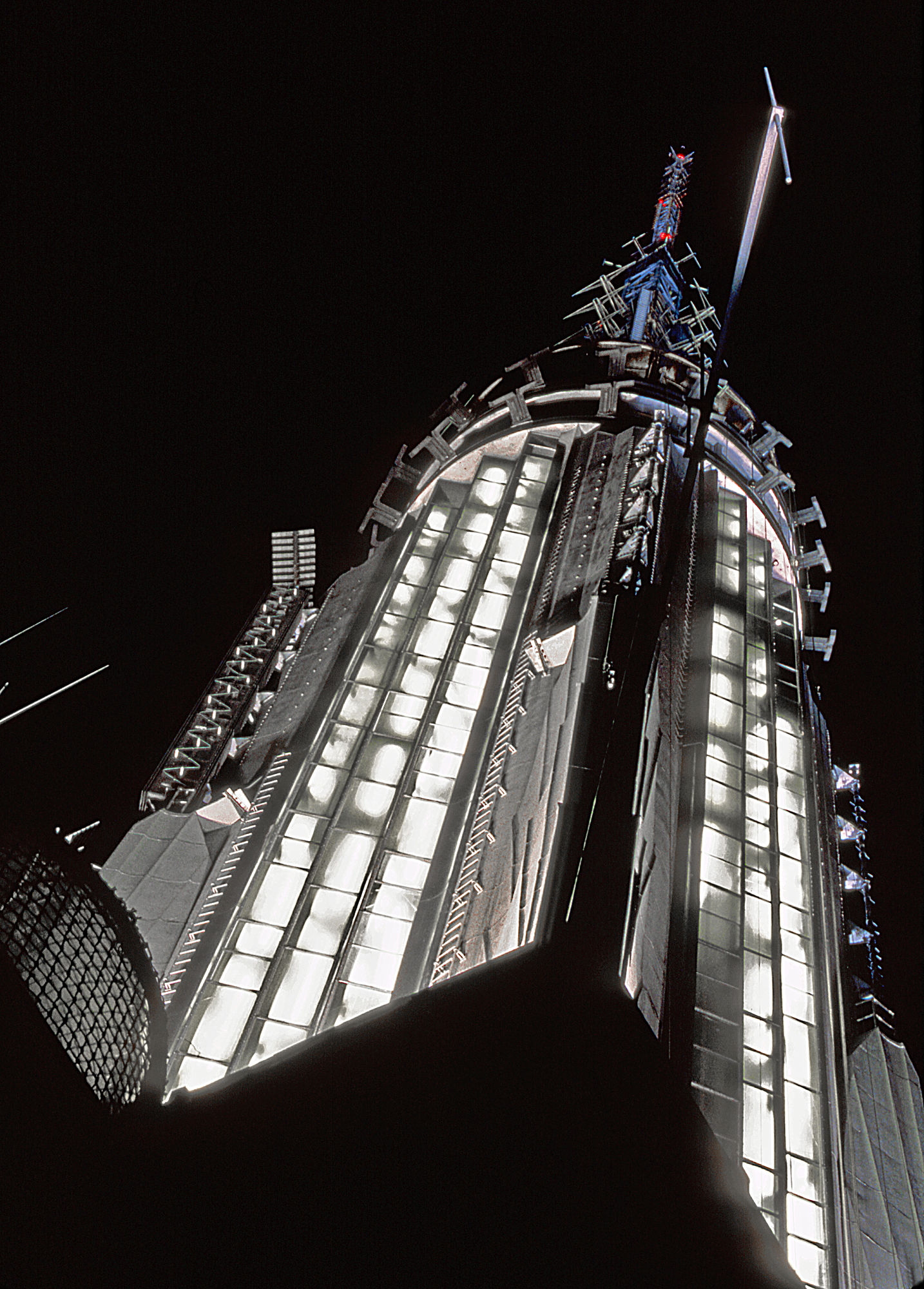 Night view from observation deck showing spire and antennae arrays. 35mm Ektachrome 64 slide film exposed 4 sec, f8, 50mm lens.